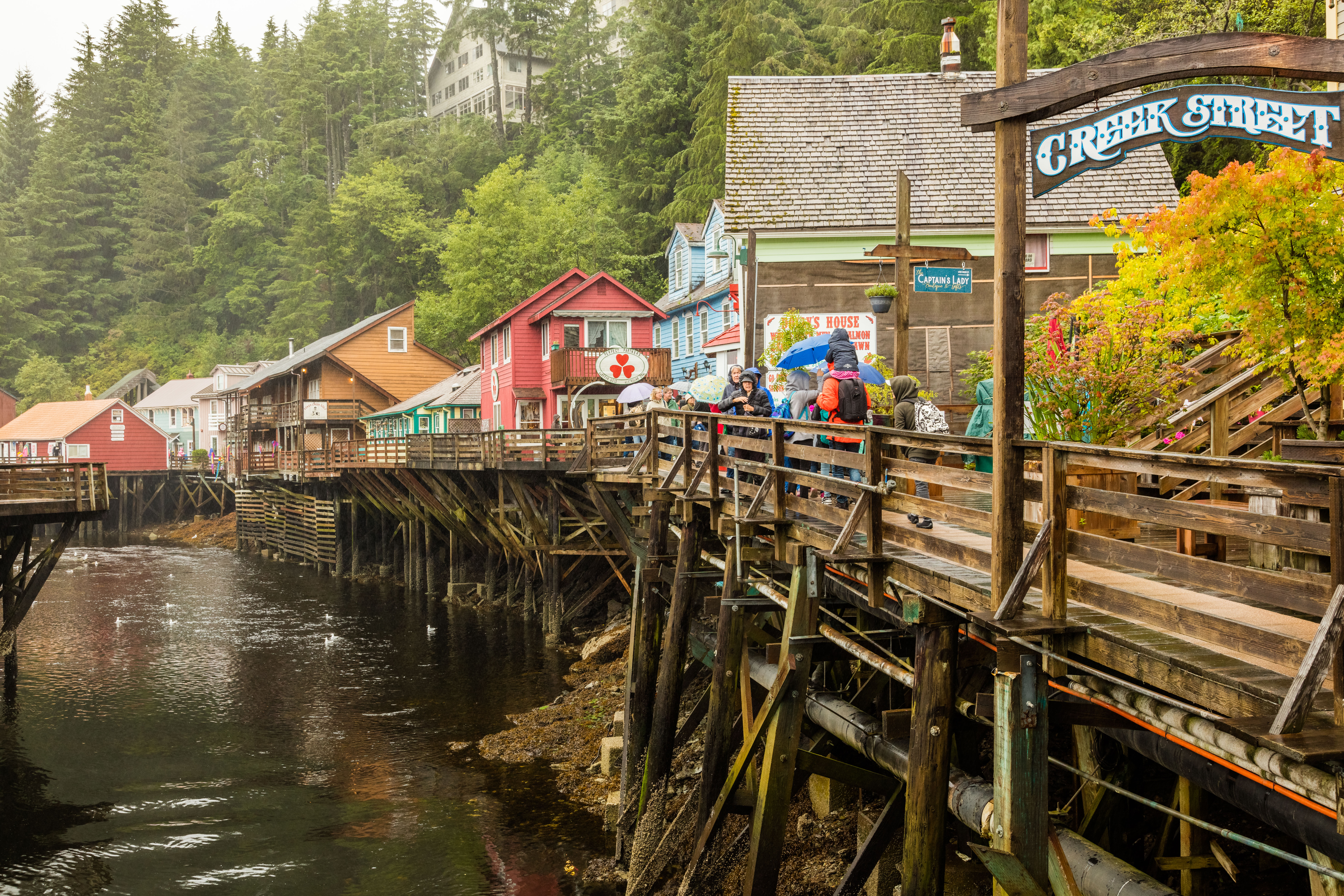 Historic Creek St, Ketchikan, Alaska, United States